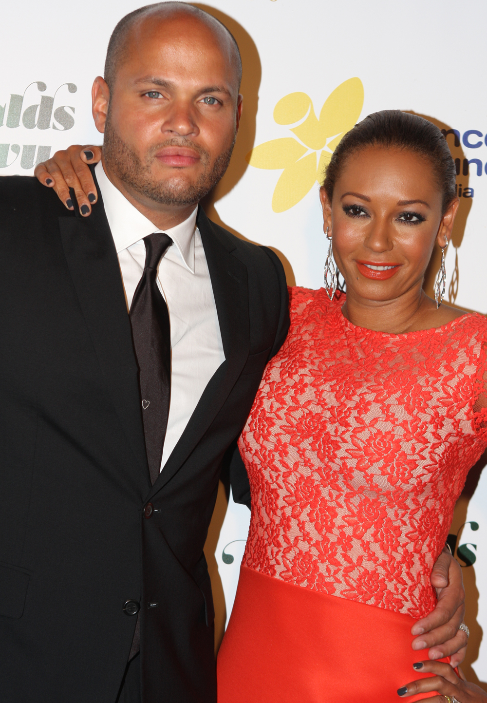 Stephen Belafonte and Mel B at The Emeralds & Ivy Ball in Sydney 2012